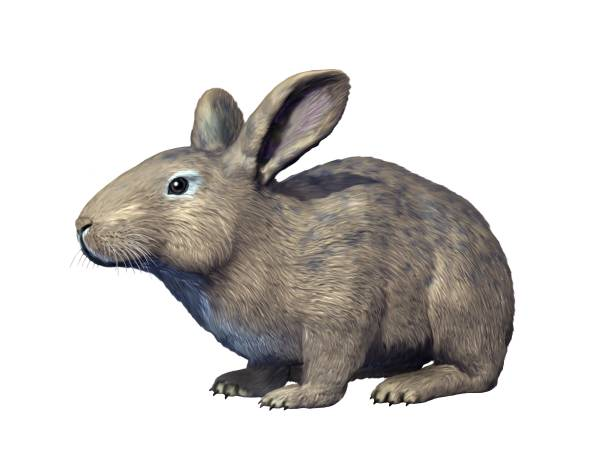 Life reconstruction of Palaeolagus haydeni